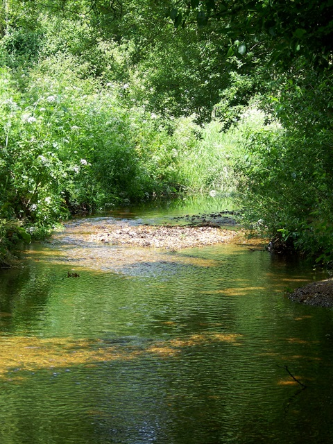 Stream near Sopley Small stream beside the Avon Valley Path. Looking upstream.